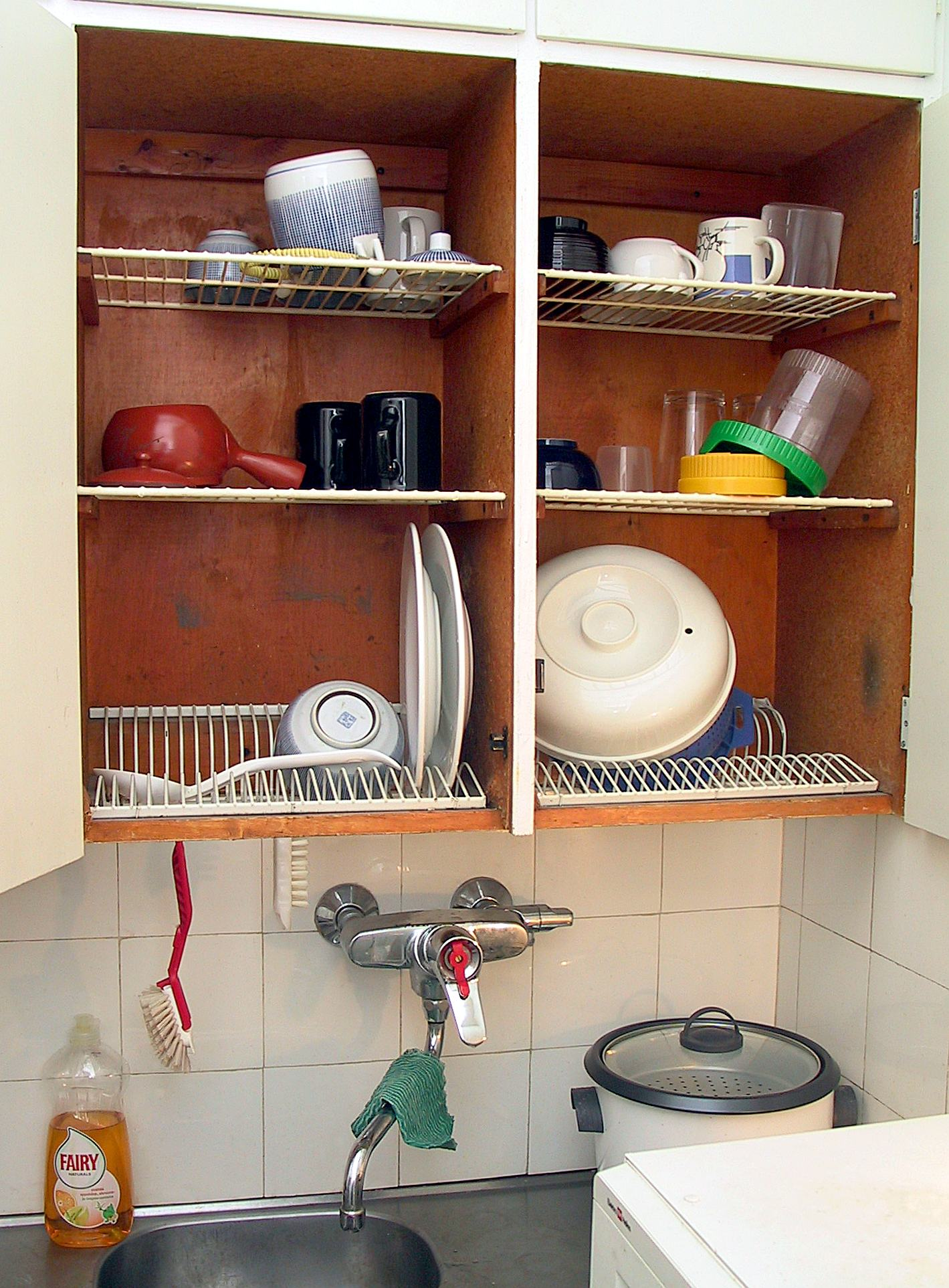 Finnish dish draining closet (astiankuivauskaappi)